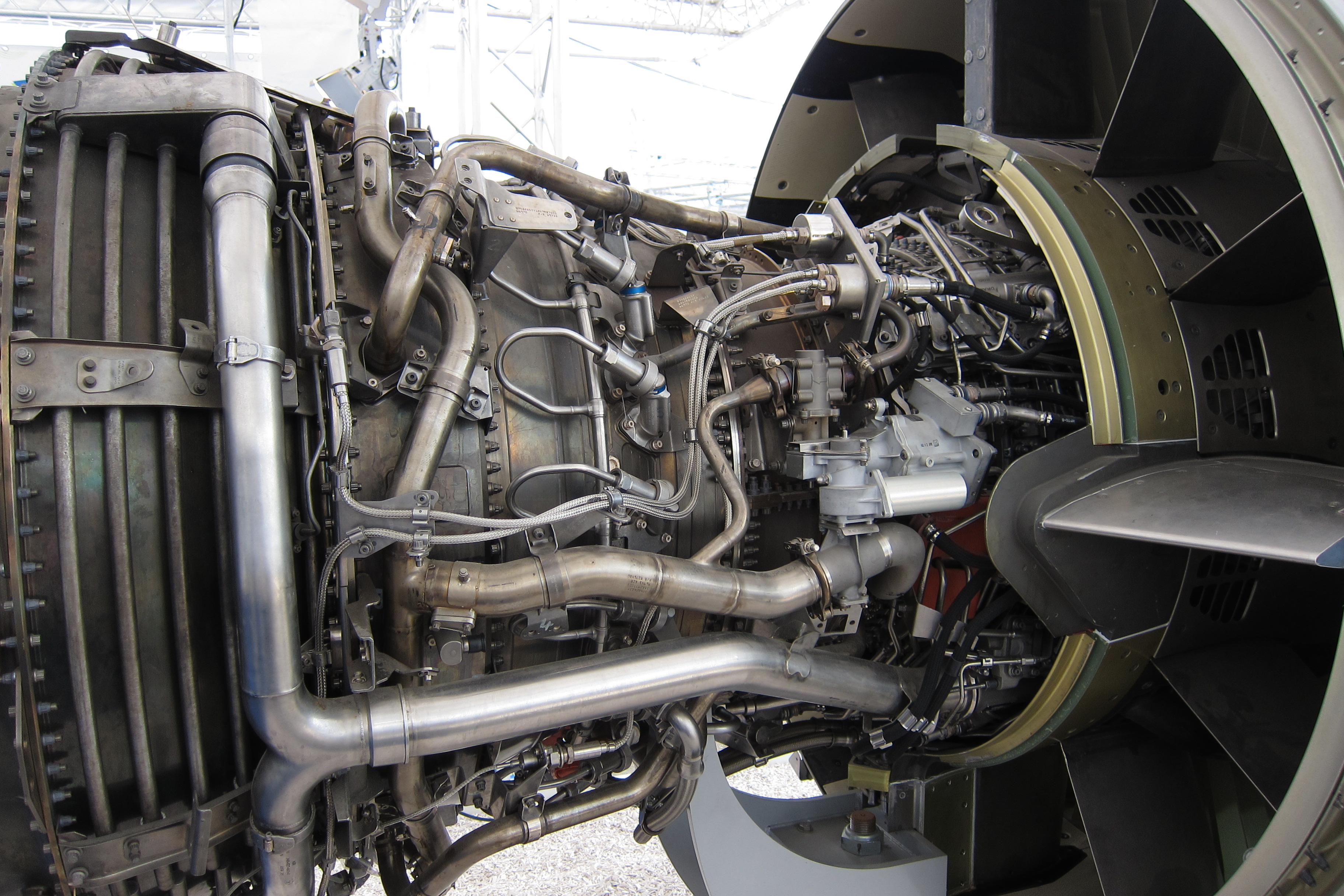 Close-up view of a CFM56 turbofan engine on display at the Paris Air Show